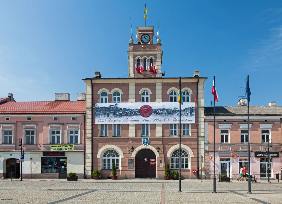 Market hall in Skierniewice, Poland